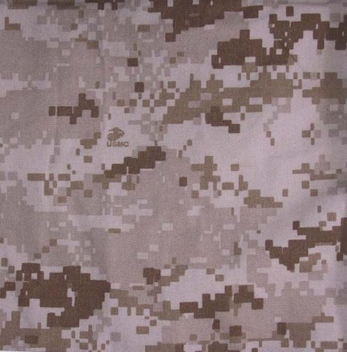 United States Marine Corps MARPAT pattern - desert version.